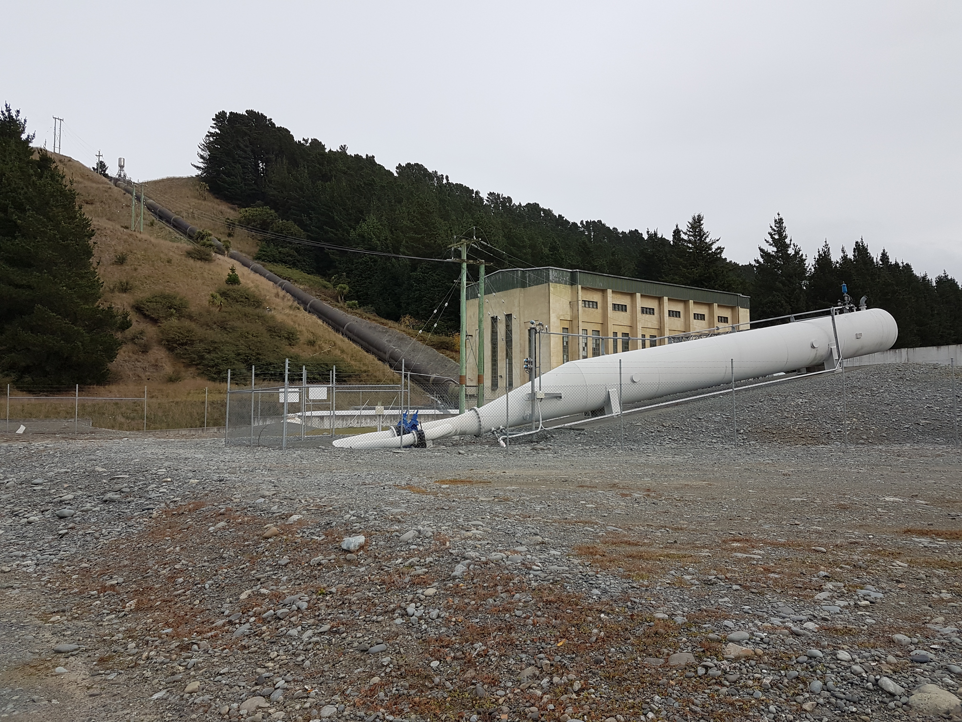 This image forms part of a series showing aspects of the canal and associated structures that were constructed to divert water from the Rangitata river for irrigation and power generation purposes. The canal terminates at the Highbank power station which releases the water into the Rakaia river.